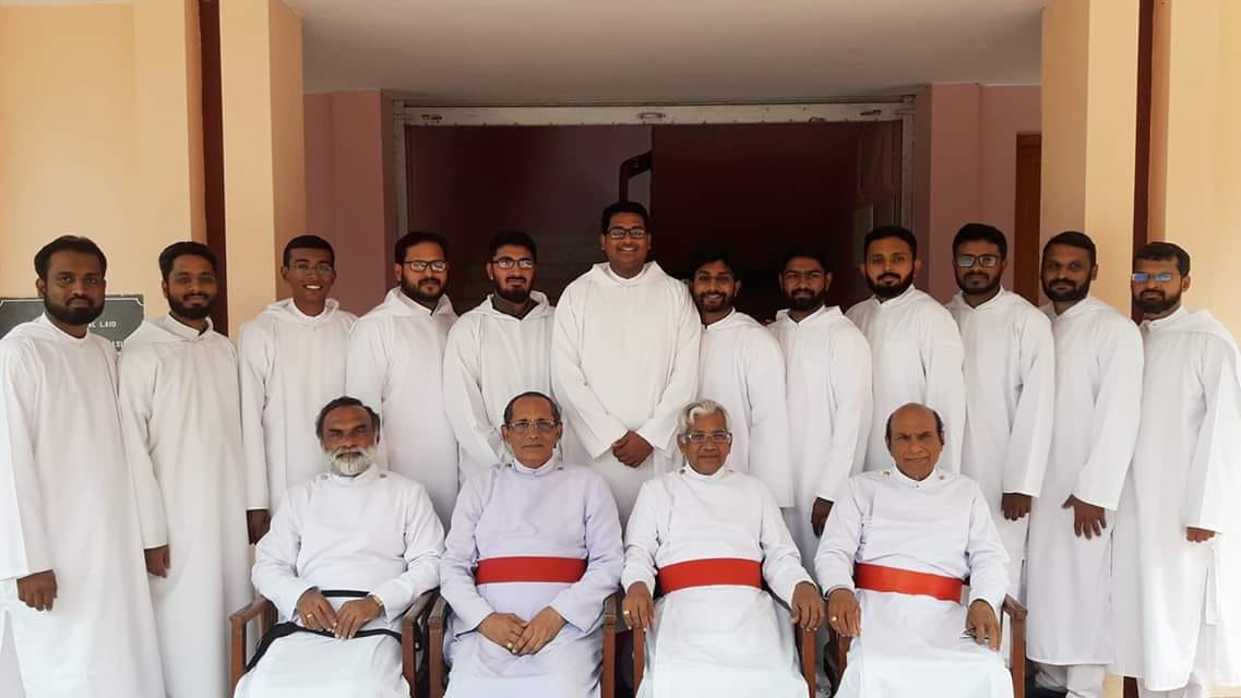 Mar Thoma Deacons